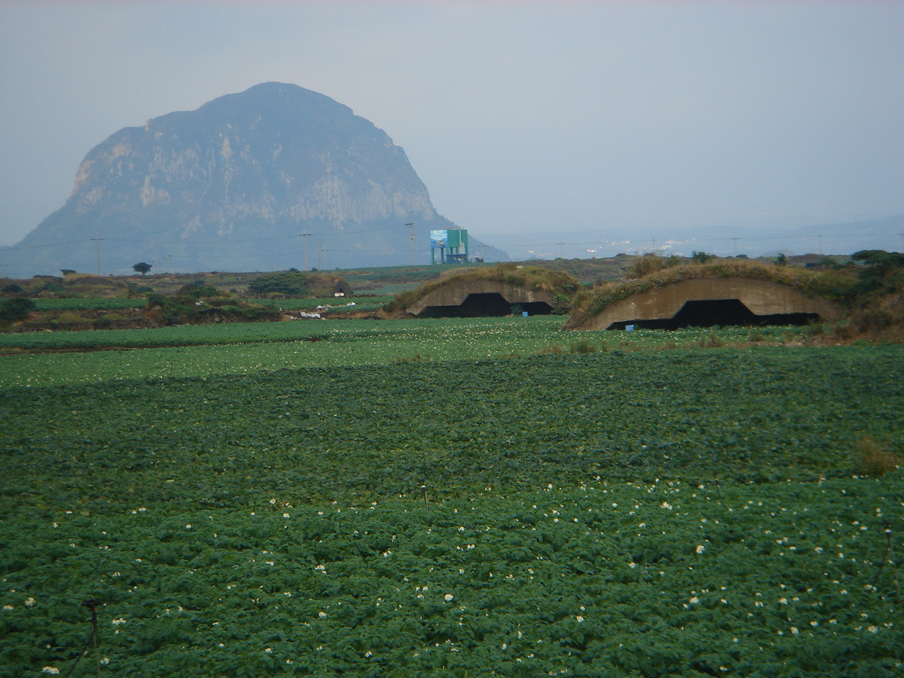 Alddreu Airfield, Jeju-do, October 2006